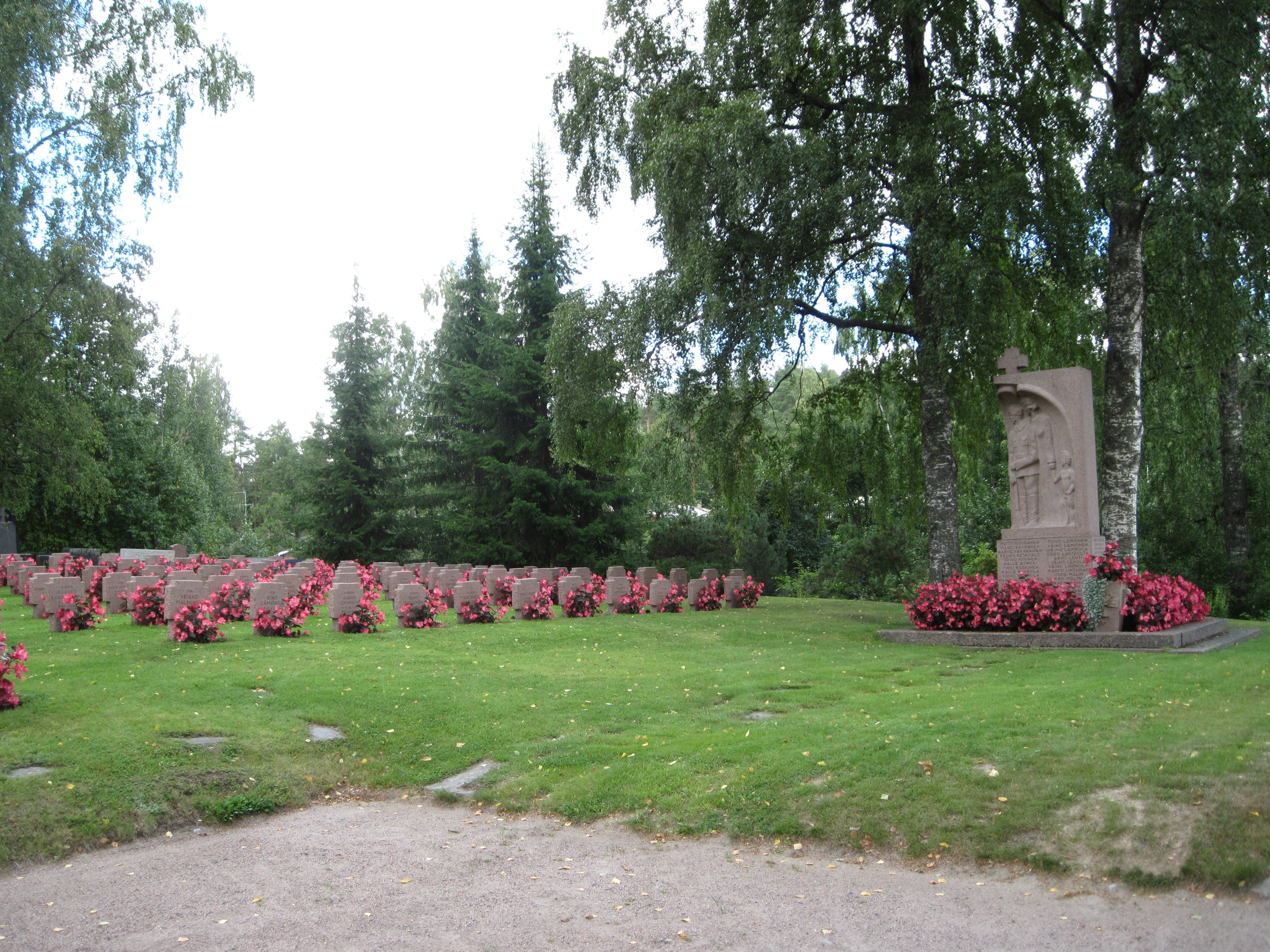 Military cemetary at church in Renko, Finland